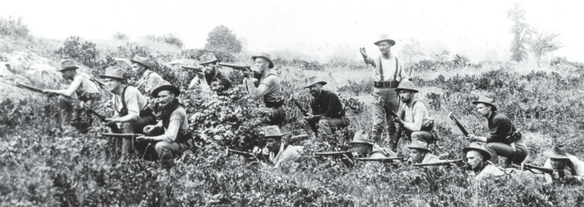 United States Marines with Krag–Jørgensen rifles. This picture is likely taken when the Marines went ashore at Guantanamo Bay, Cuba in June 1898.